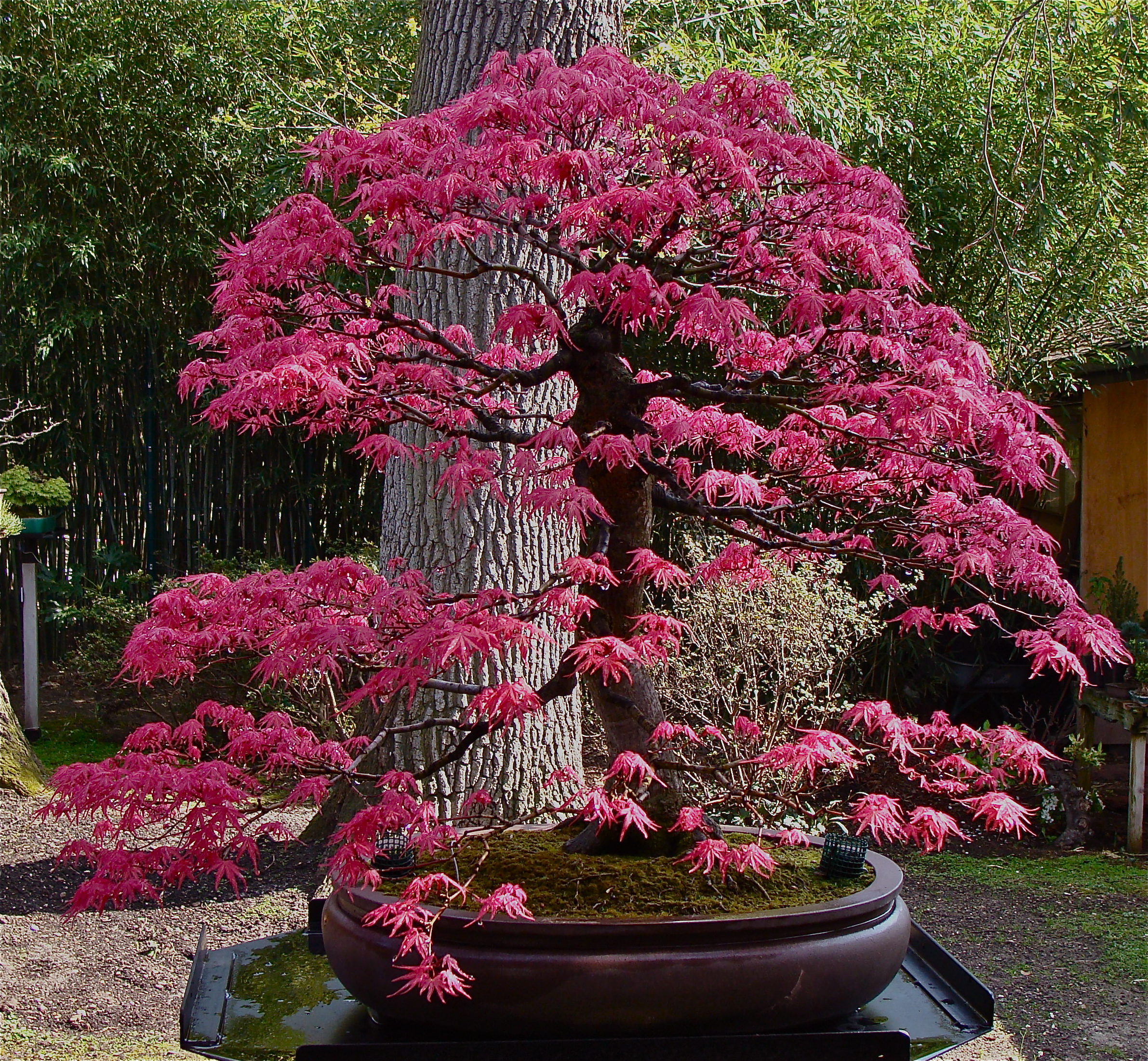 Acer Palmatum Seigen Bonsai, Parc floral de Paris